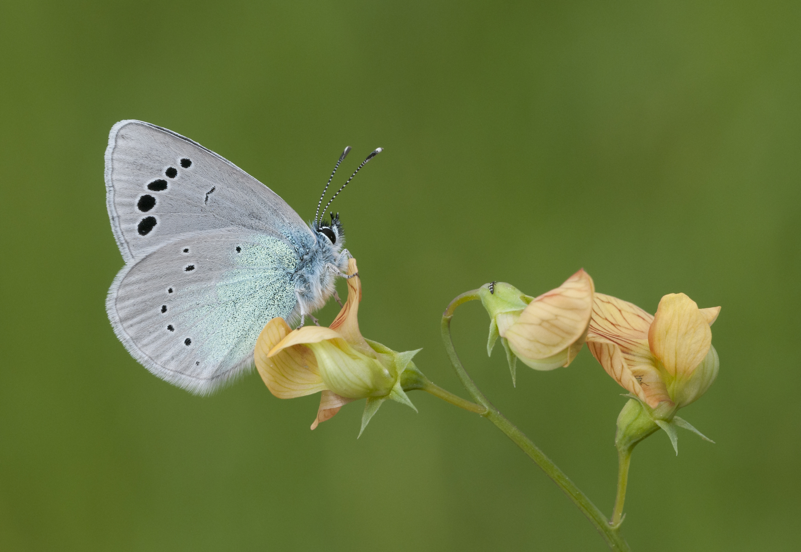 A male specimen of Green-underside Blue butterfly (Glaucopsyche alexis). Balcalı, Adana - Turkey.